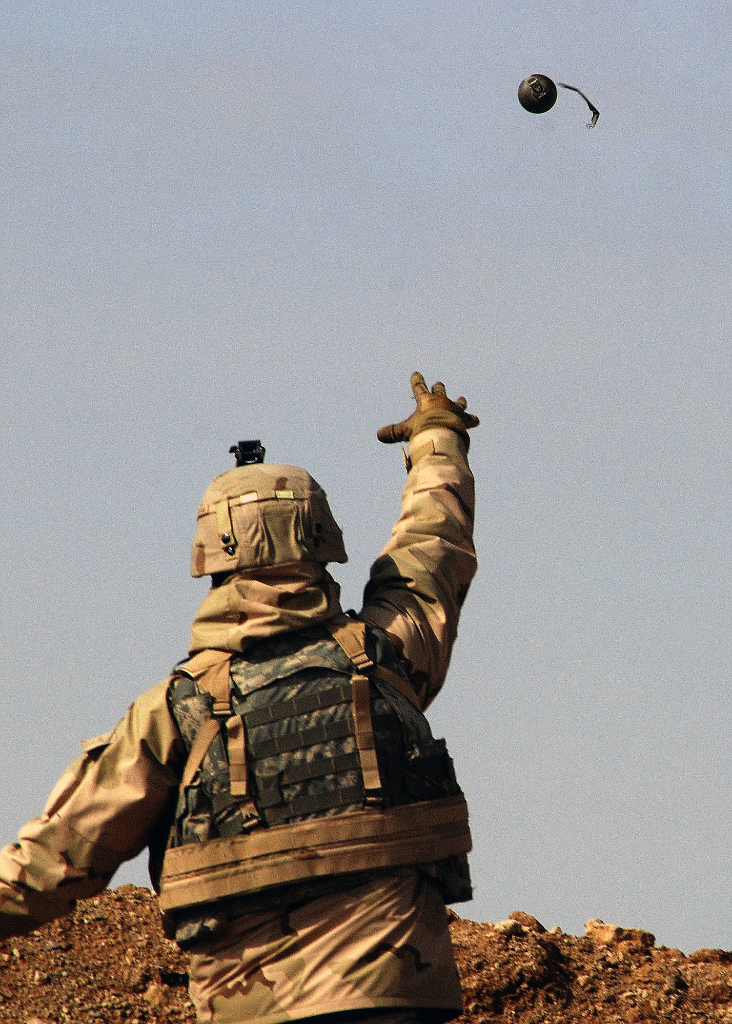 LASHKAR GAH, Afghanistan (Jan. 28, 2008) Petty Officer 2nd Class David Crabb, assigned to Navy Embedded Training Team 3-205th Garrison, throws a hand grenade during weapons familiarization training. Crabb is part of a 14-man team that mentors the Afghan National Army Shorbak garrison in Helmand Province. U.S. Navy photo by Mass Communication Specialist 1st Class David M. Votroubek (Released)